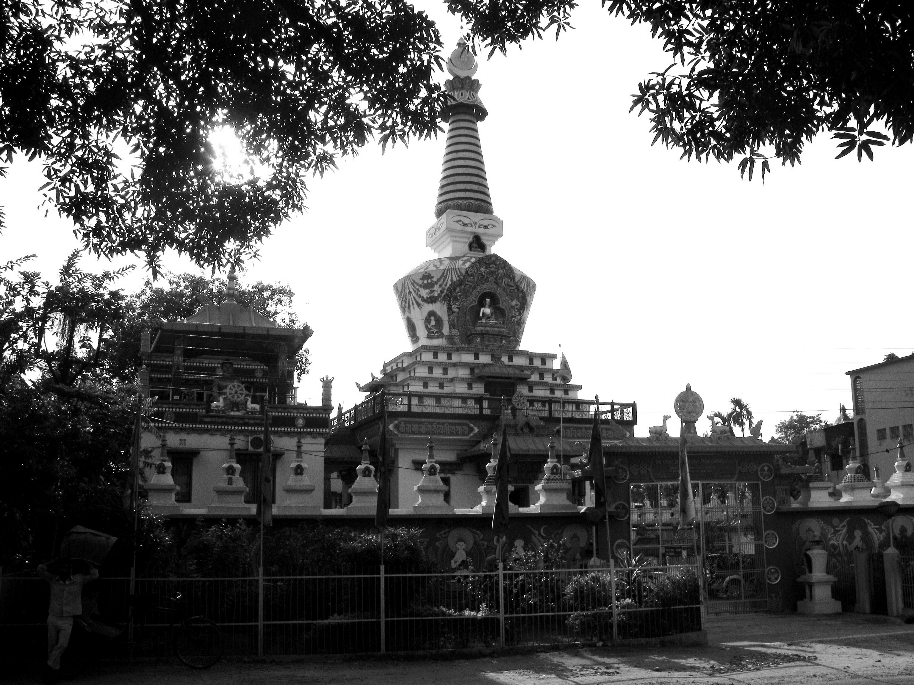 this is a pic of the entire temple...the golden buddha statue is on the left hand side...and the 100 foot chorten is in the middle... the temple was built by the controversial tibetan lama kalu rinpoche... once again...one of the more ignored buddhist sites in the darjeeling - sikkim - siliguri area...DO NOT miss out on this if you do go that side...the artwork is fantastic...and the architecture is even better :)